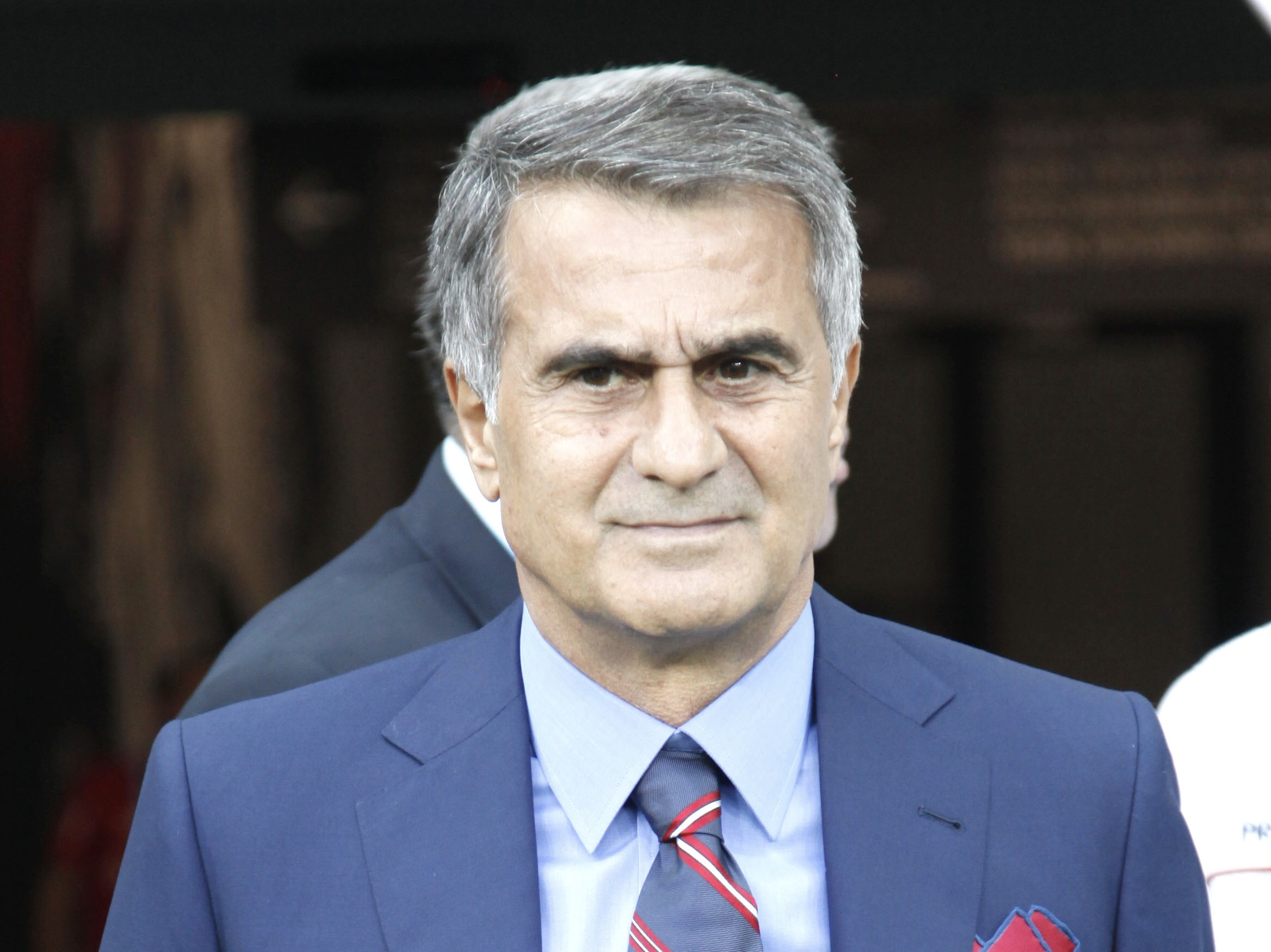 Şenol Güneş at Vodafone Park before Beşiktaş hosted Bursaspor on 26 August 2017.